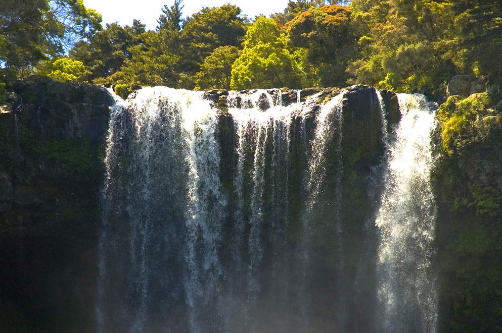 Rainbow Falls near Kerikeri (15 January 2005.) Photograph by James Shook, who retains copyright and releases the image under the license shown below.